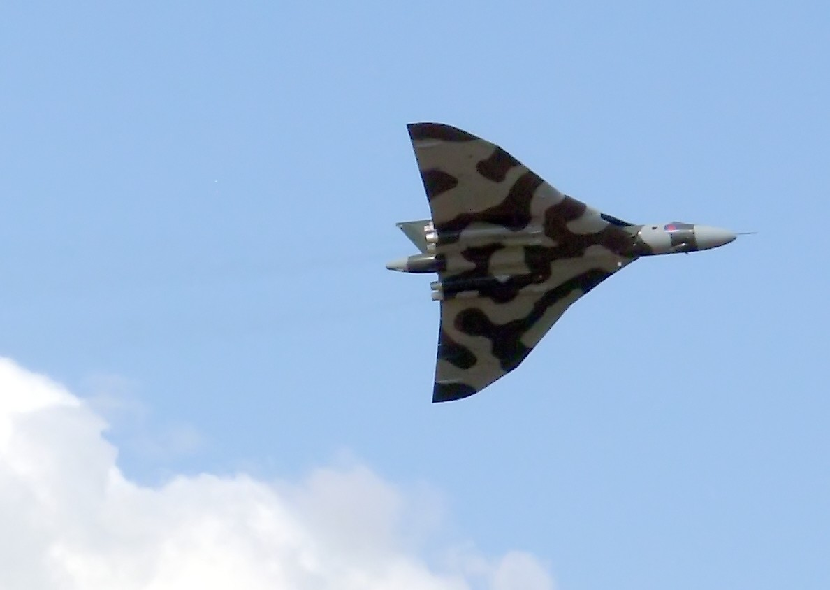 Avro Vulcan XH558 displaying over RAF Waddington on 5 July 2008, its first public display since restoration.